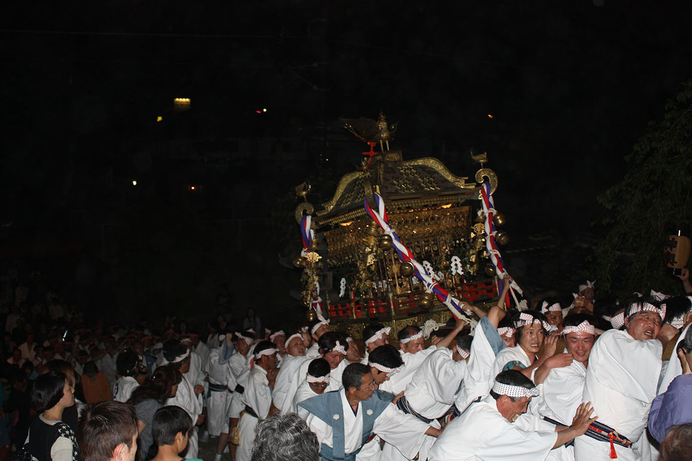 SannouMatsuri Mikoshi in Miyazu Sannogu-Hiyishi shrine,Miyazu,Kyoto,Japan.